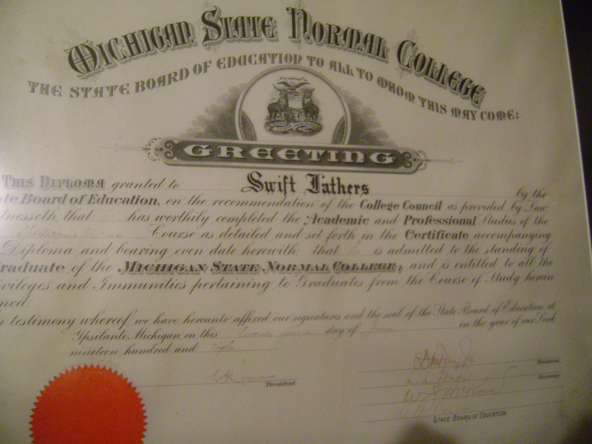 Lathers' college degree